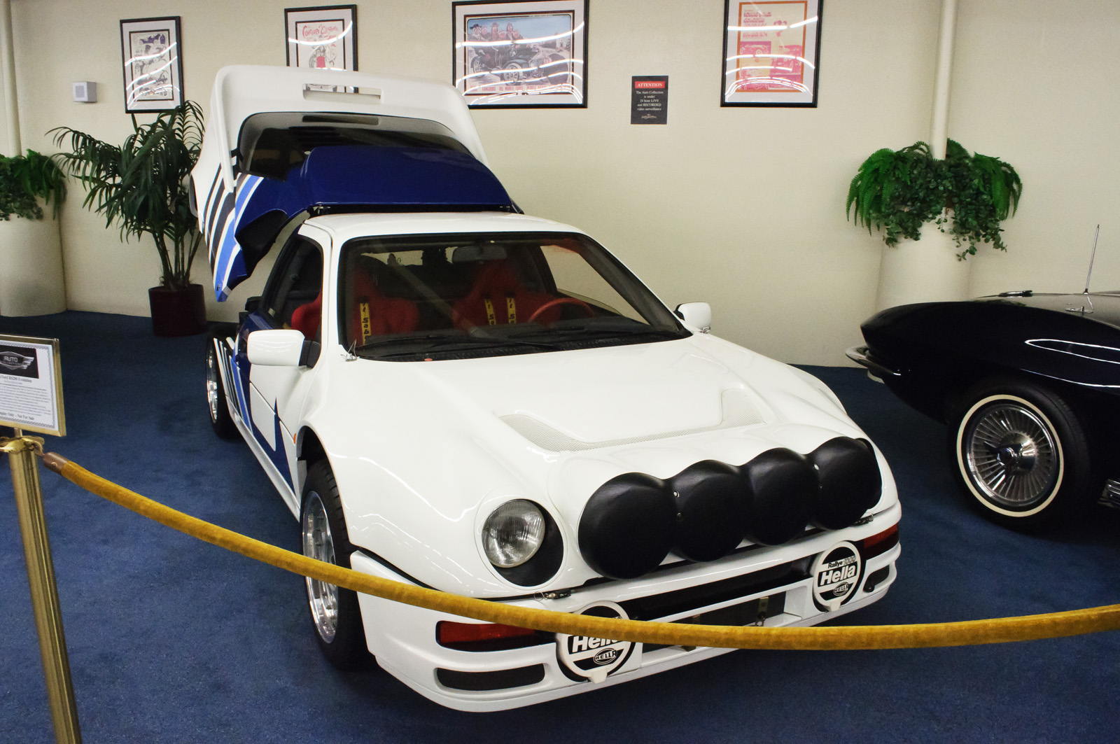 Seen at the famous Auto Collection at The Quad (formerly Imperial Palace), Las Vegas. The RS200 was a very rare rally car from Ford of Europe, built from 1984 to 1986. To comply with rally rules, 200 road-legal production versions needed to be built, and 24 of them were later converted into "Evolution" specification, including this one. The RS200 was so successful in its class (Group B) that after one year, Group B was abolished and the model banned from racing.